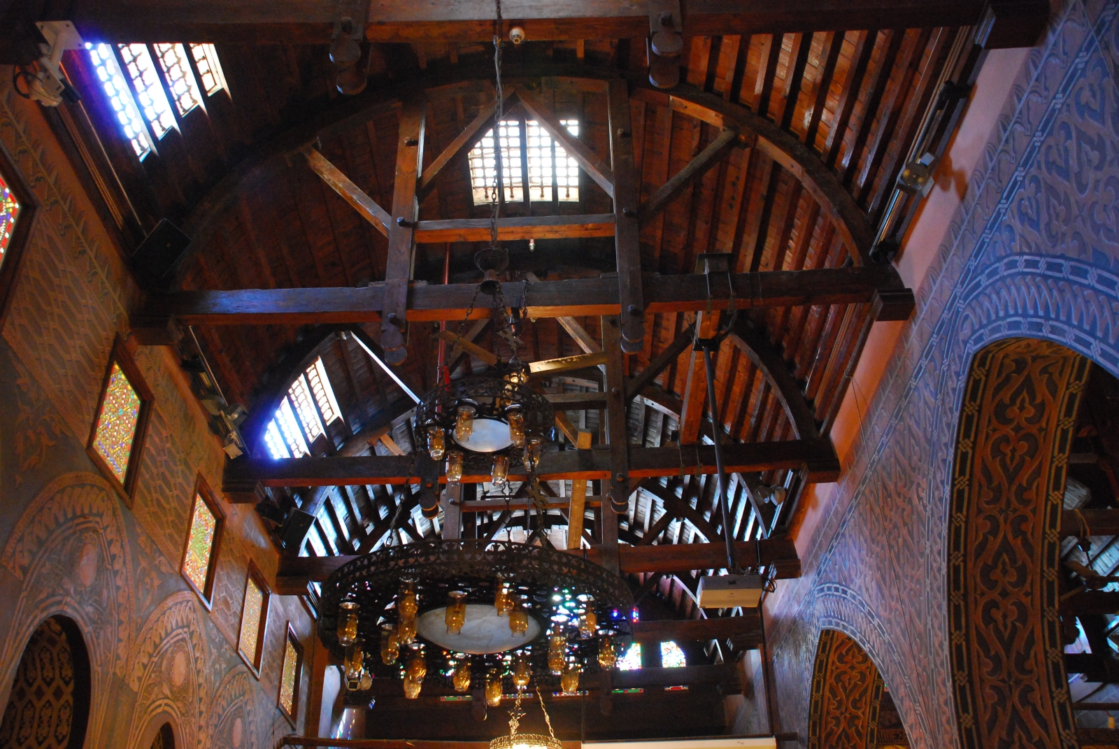 barrel-vaulted aisle